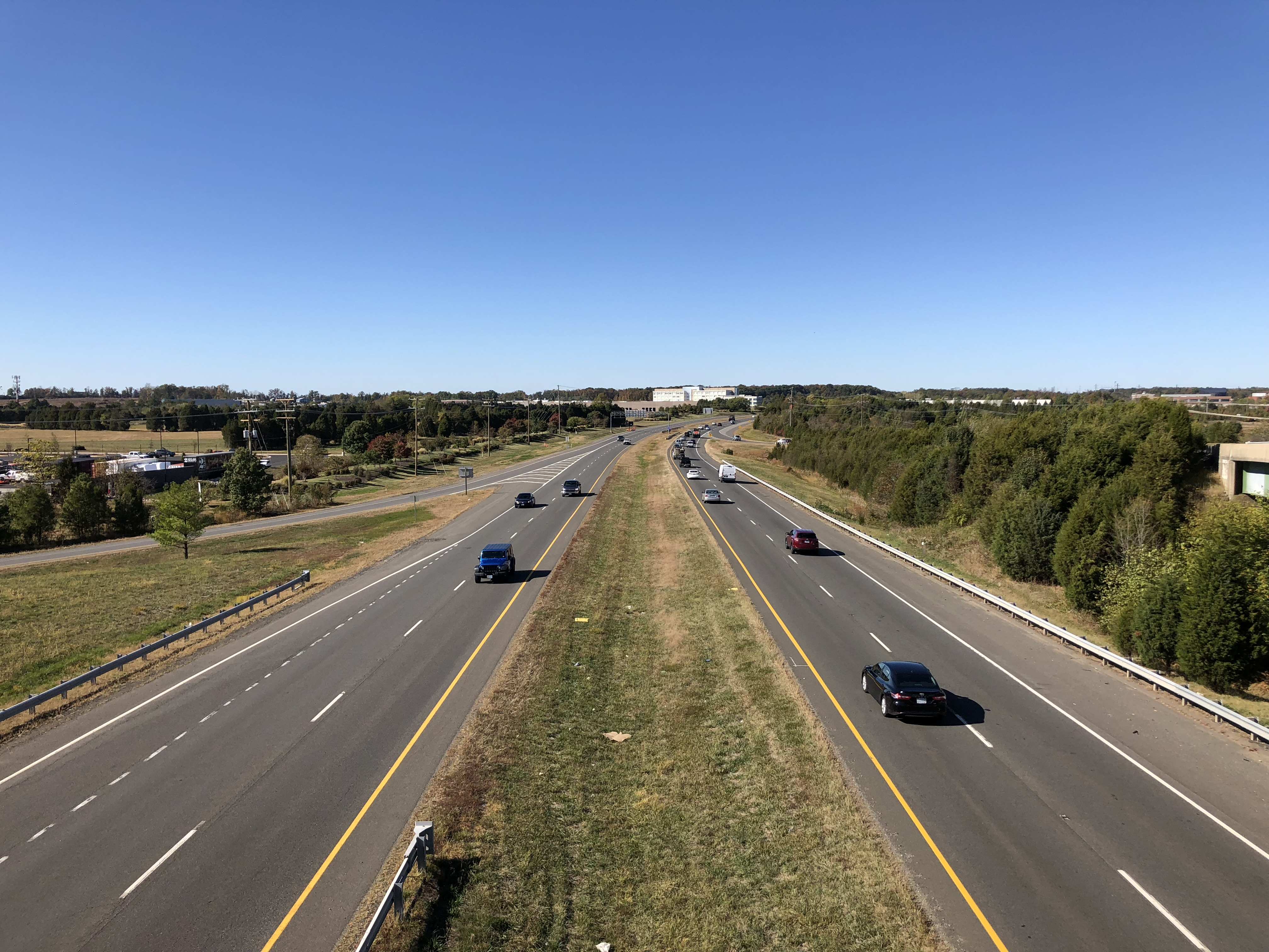 View north along Virginia State Route 234 (Prince William Parkway) from the ramp connecting northbound Virginia State Route 28 (Nokesville Road) to northbound Virginia State Route 234 in Bristow, Prince William County, Virginia